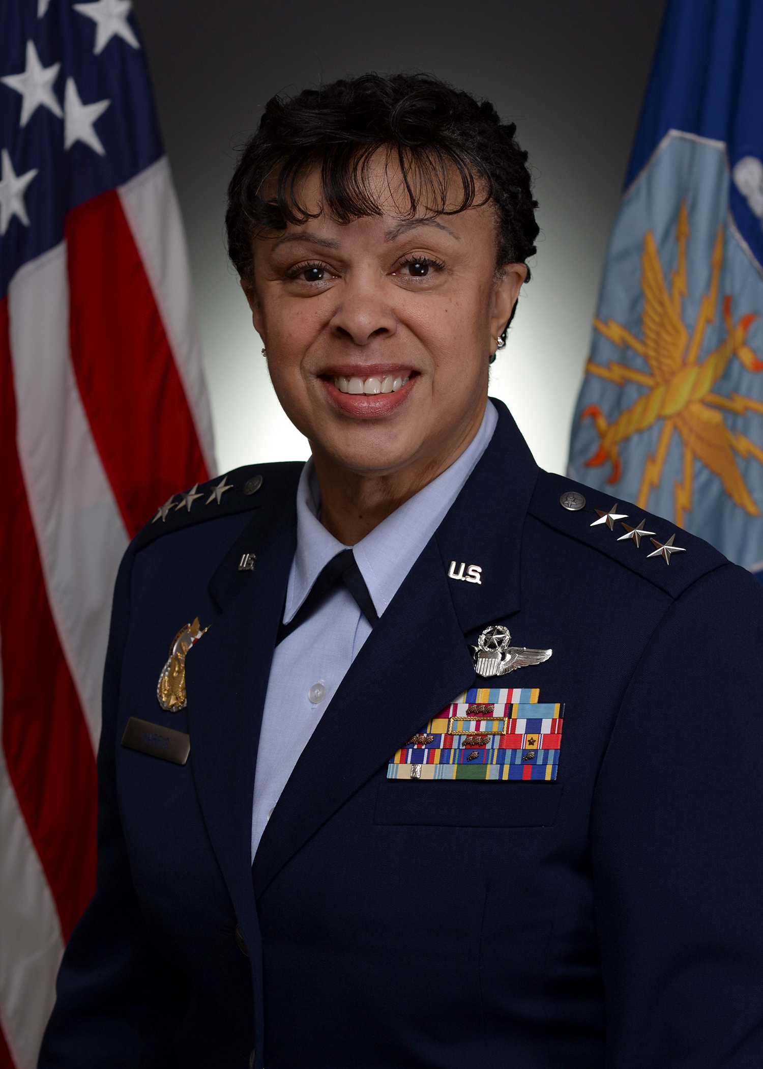 LtGen Stayce D. Harris as Inspector General of the Air Force